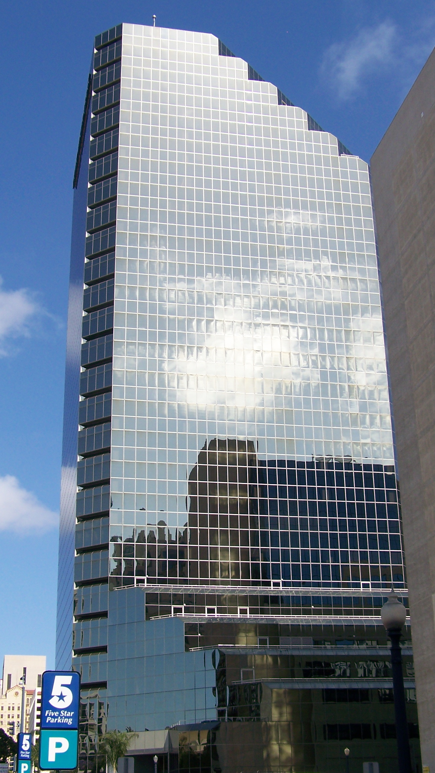 First National Bank Center skyscraper in San Diego, California. Construction was completed in 1982.